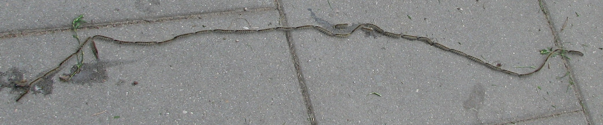 Thaumetopoea pinivora